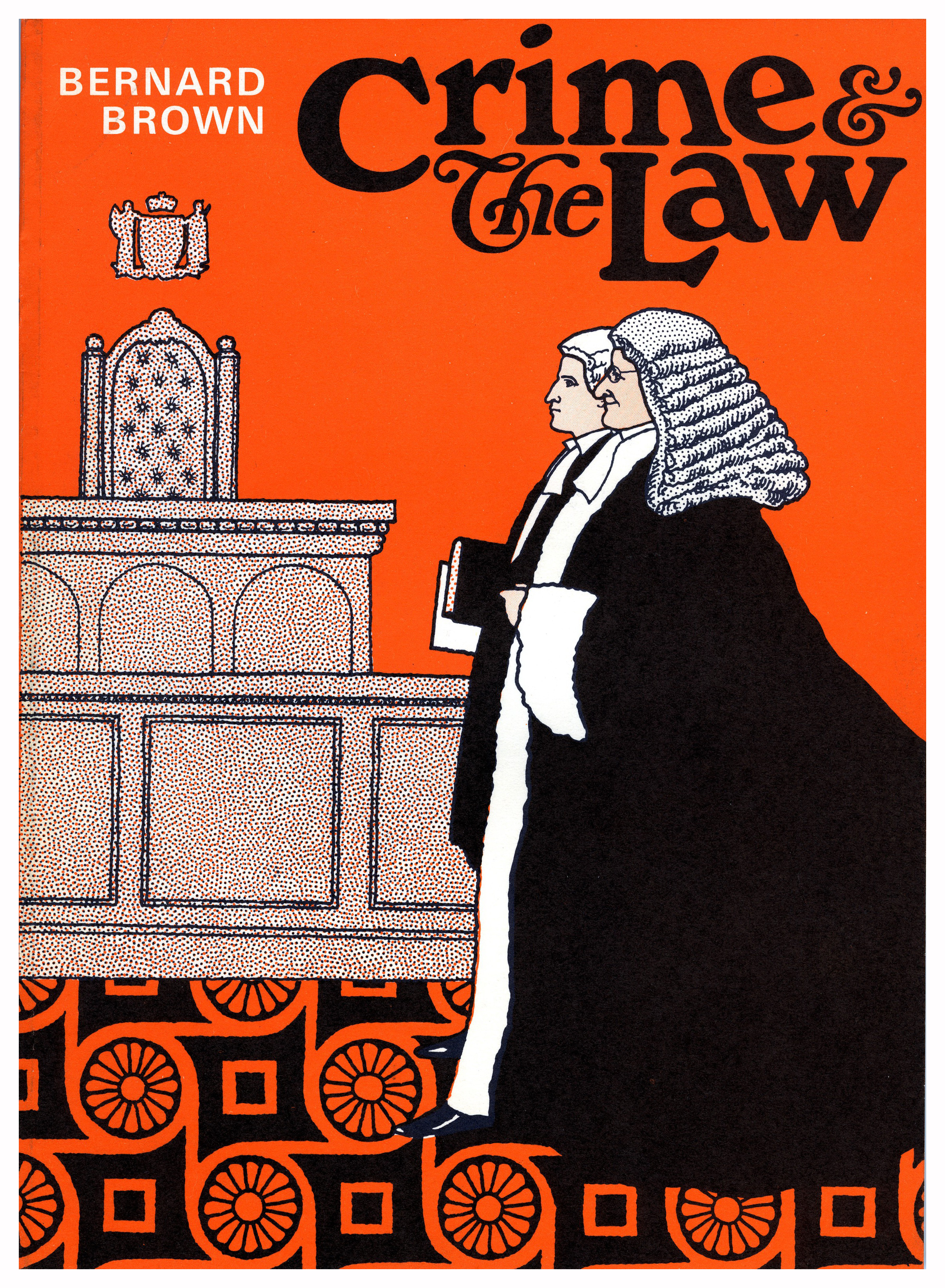 Crime and the Law was a Bulletin for schools, written by Bernard Brown and produced by the Department of Education (1969). It was illustrated by prominent New Zealand artist, Graham Percy An illustration from this publication can be seen on our Flickr page here: More original artwork and school publications can be found in the 'Publication Folders' series: Archives Reference: AAAD 699 Box 23 / f Material from Archives New Zealand